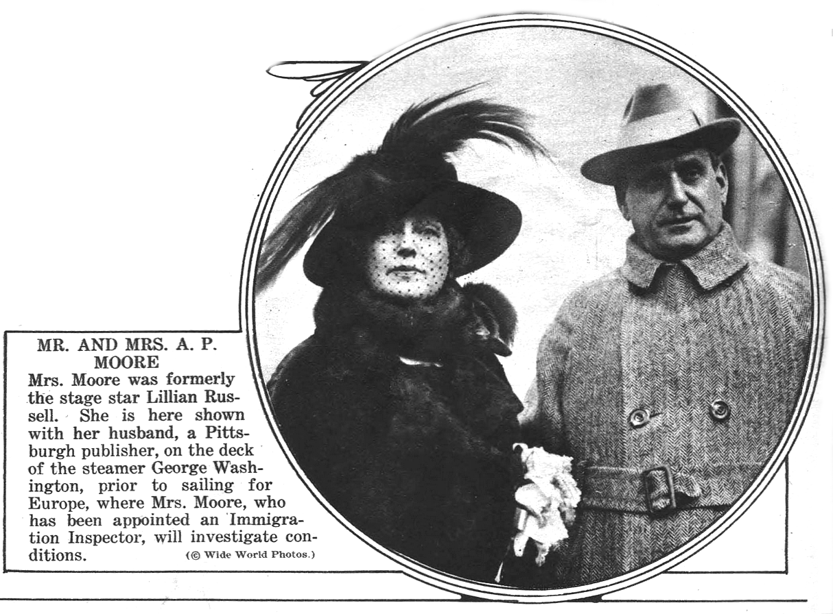 Lillian Russell Moore and her fourth husband, Alexander Pollock Moore, just before she set out on her fact-finding mission to Europe in 1922